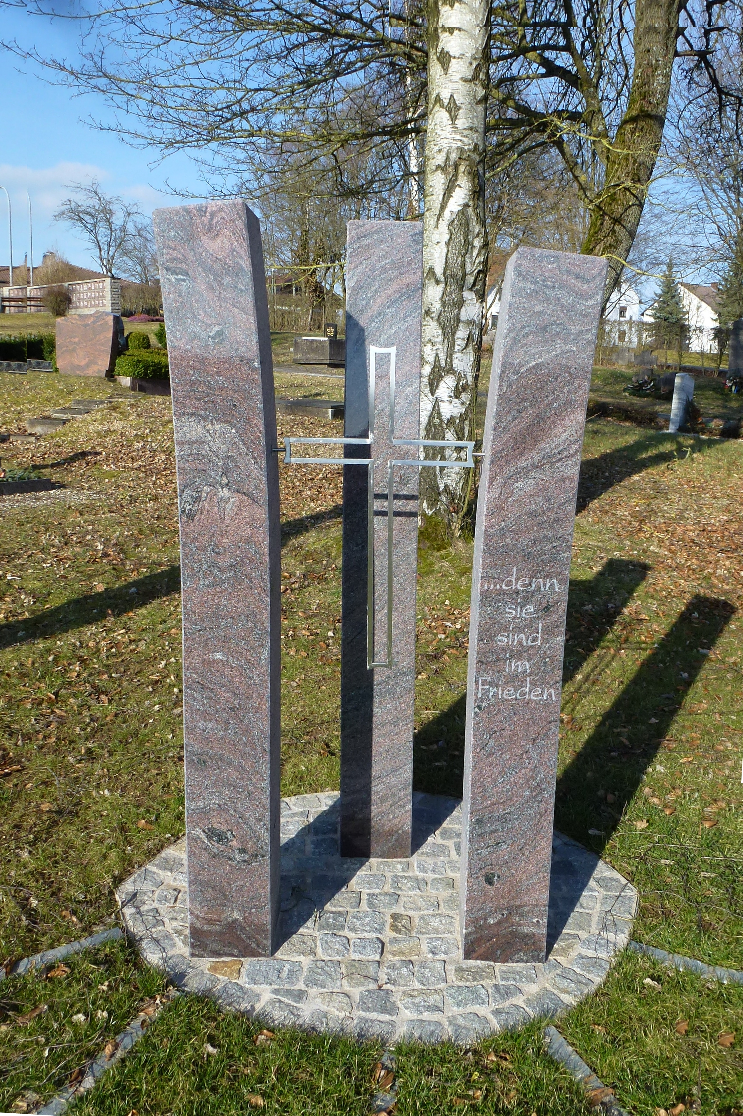 Stele group: "...... because they are at peace" - in the cemetery of Weidach.